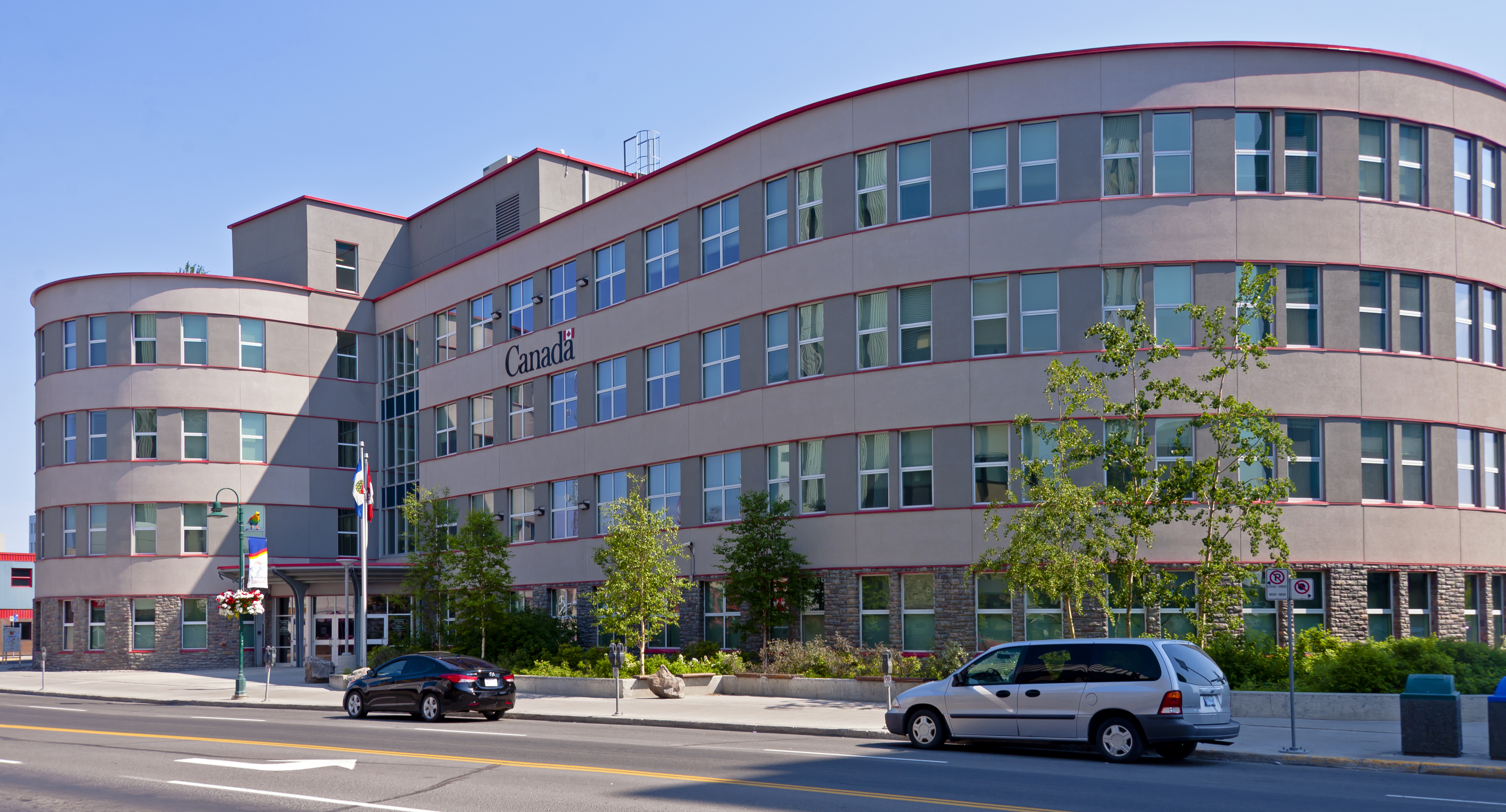 The Greenstone Government Building, main offices of the Canadian federal government in Yellowknife. Built in 2005, it is the first LEED Gold certified building design in Northern Canada